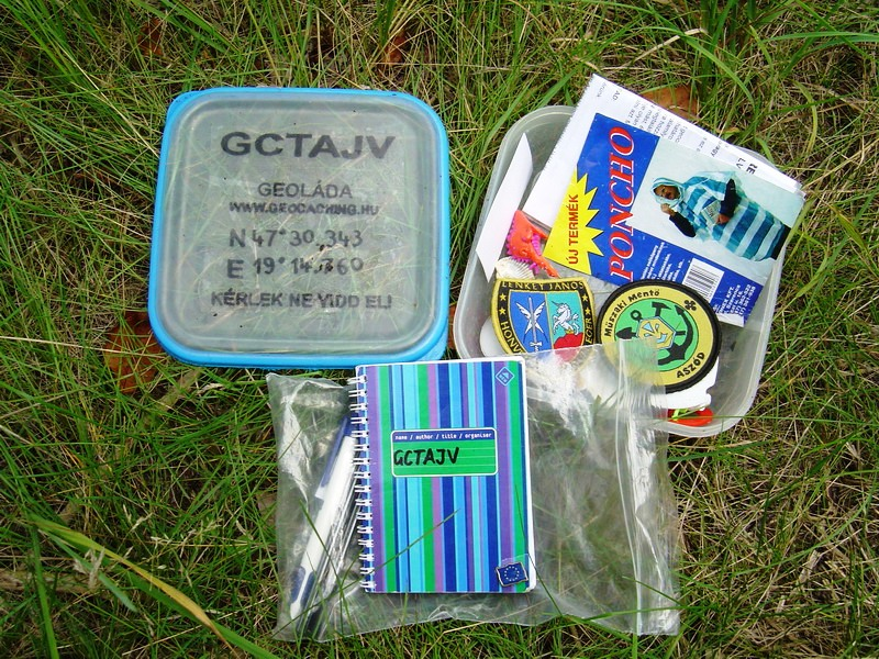 The content of a "geocache" in Hungary (GCGXEN – Wood of Cinkota).